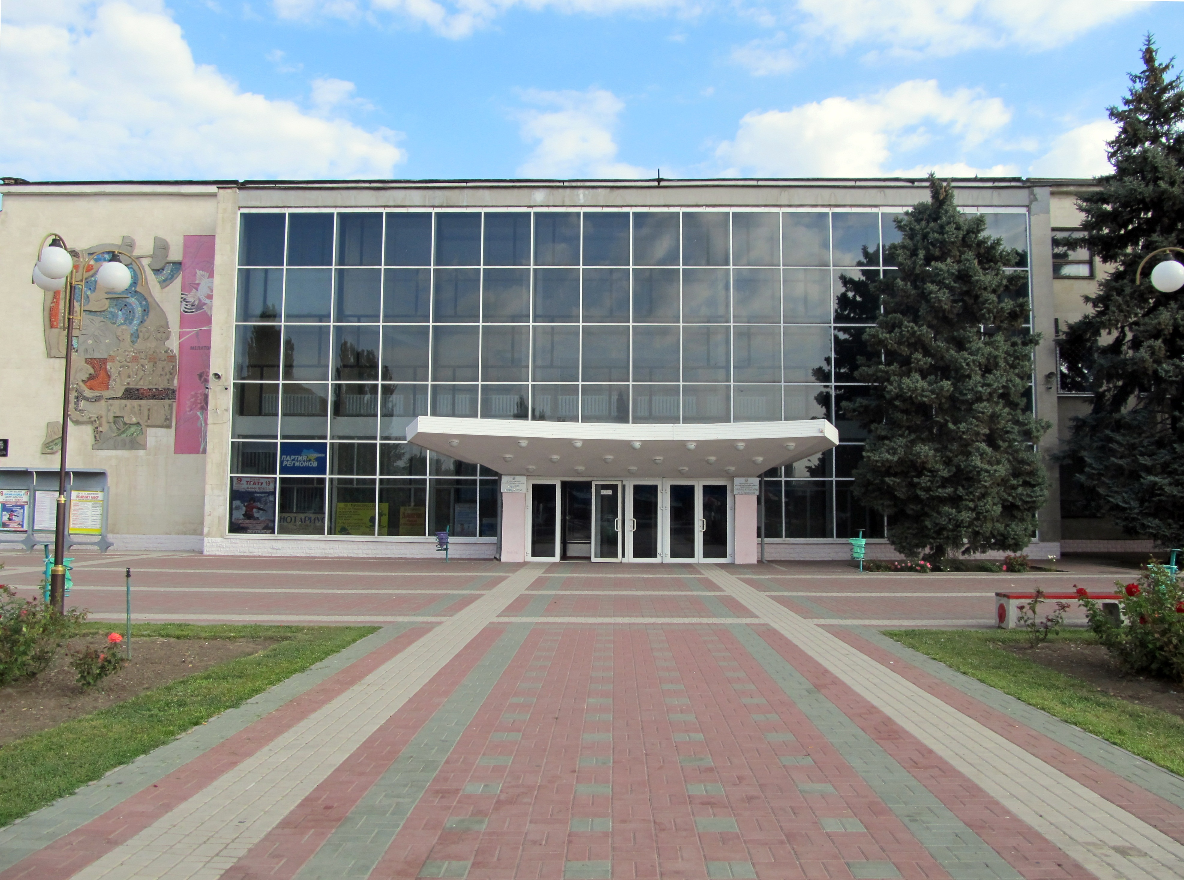 Peremohy (rus. Pobedy) Square, Melitopol, Zaporizhia oblast, Ukraine.